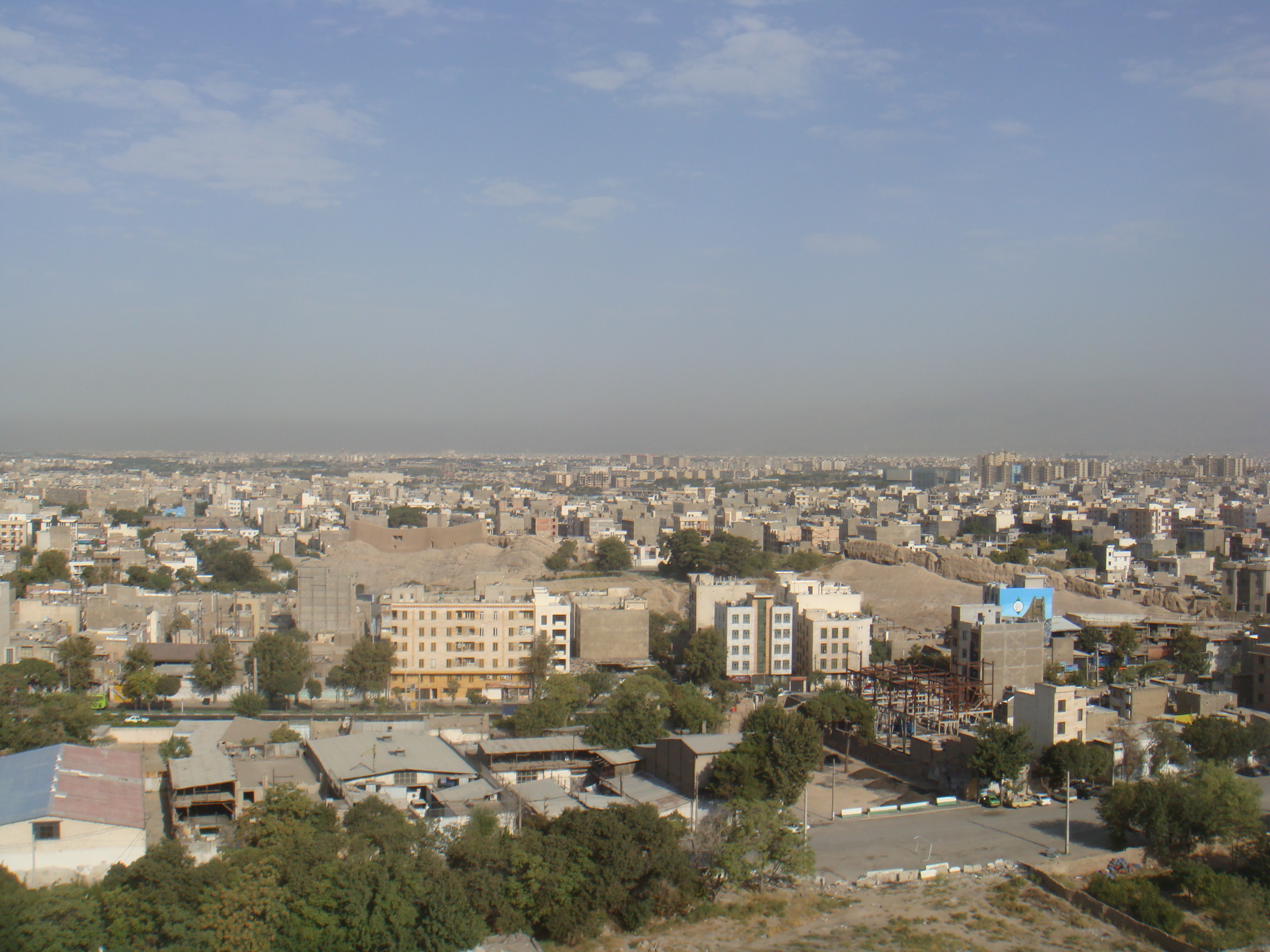 Panorama of Cheshmeh Ali in Ray, Tehran